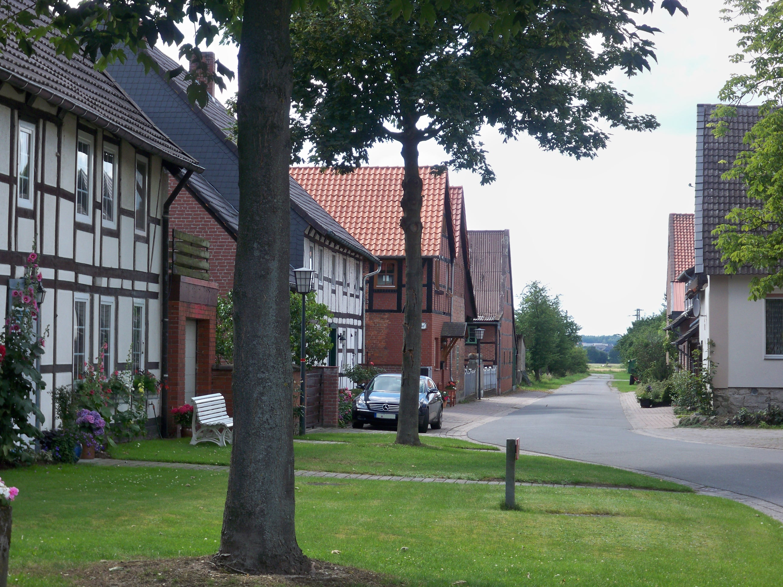 Hoitlingen, Lower Saxony, Village Street